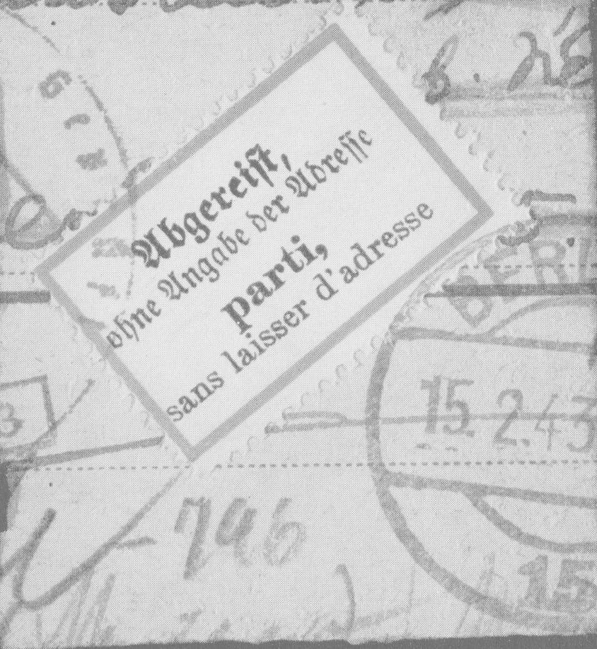 abgereist ohne adresse, d. h. ins kz verschleppt. Displaced to concentration camp of nazis